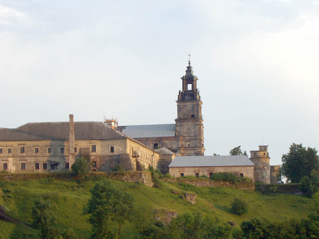 Pidkamin Abbey near Brody in Lviv Oblast